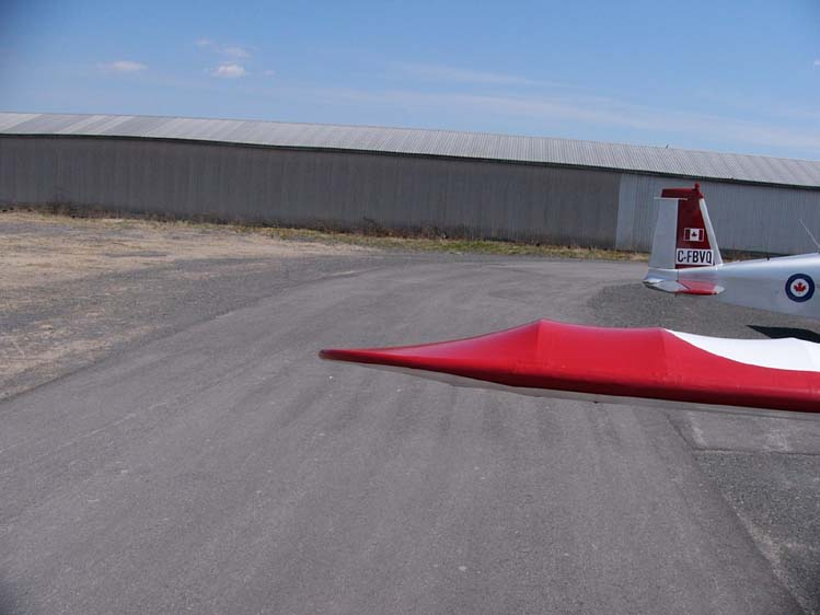 The wing tip of a Quad City Challenger II aircraft, with tail of an American Aviation AA-1 Yankee in the background